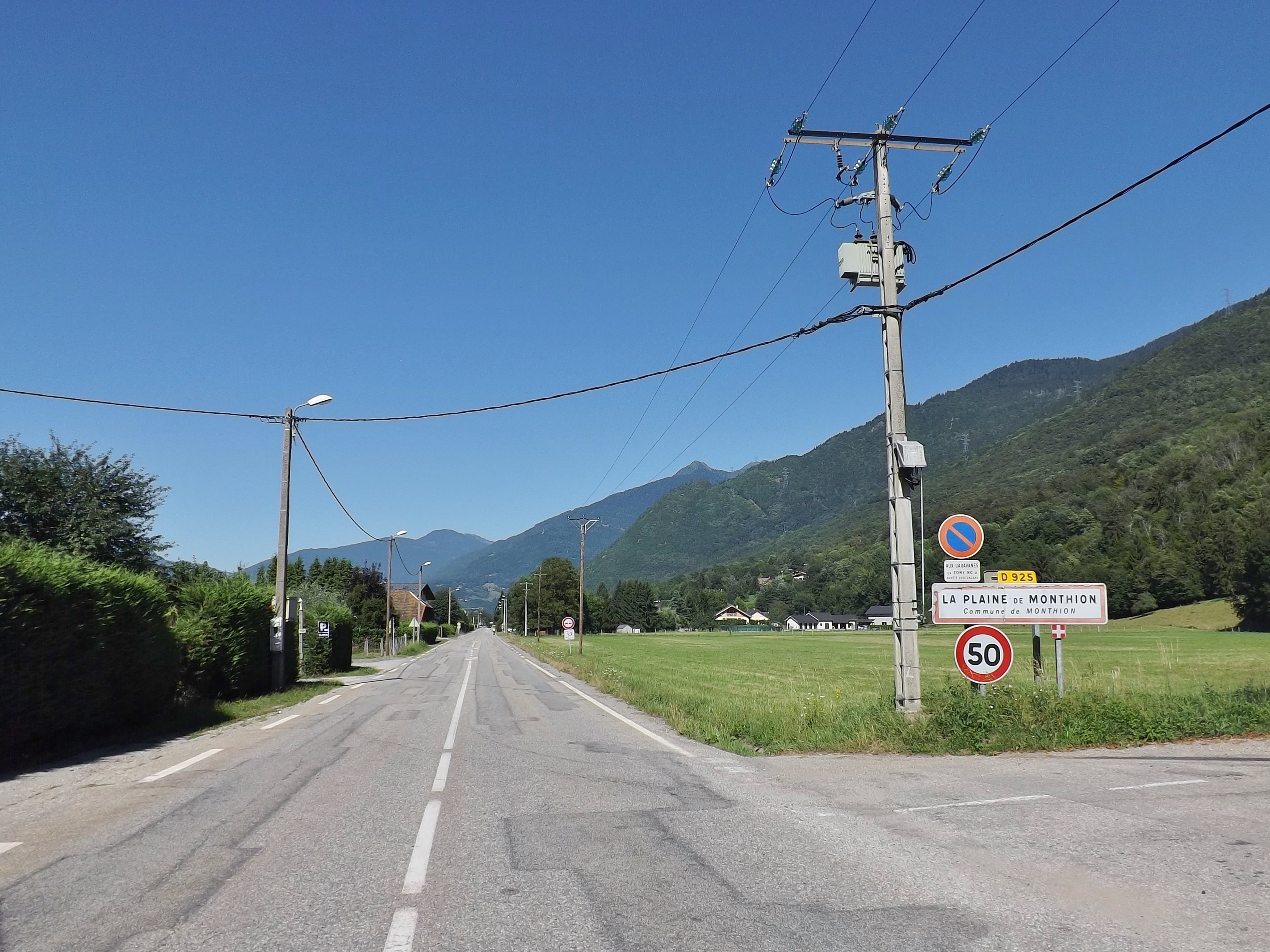 Sight of the French road RD 925, here entering into the commune of Monthion (la Plaine) near Albertville in Savoie.